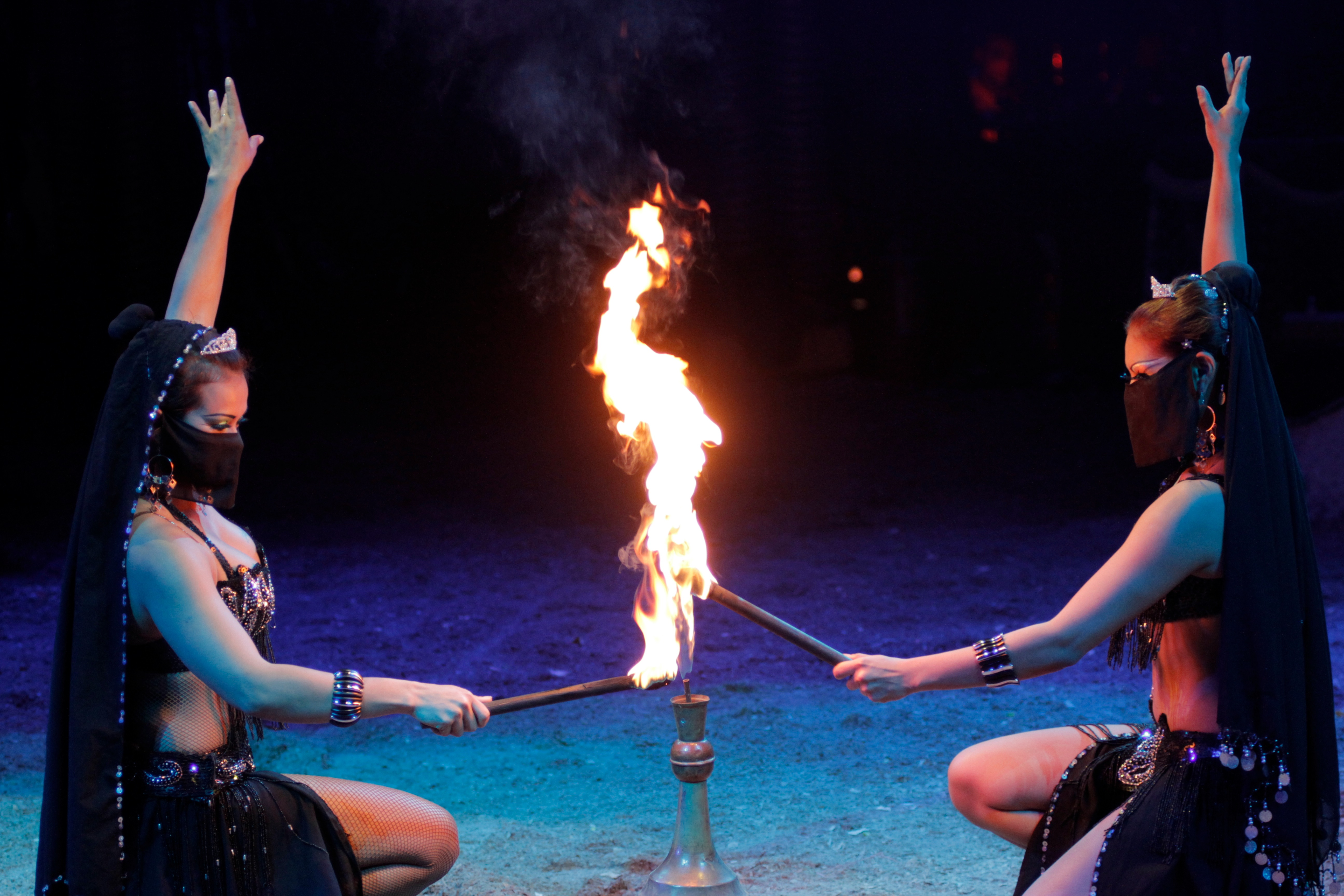 Full story: القصة l'histoire